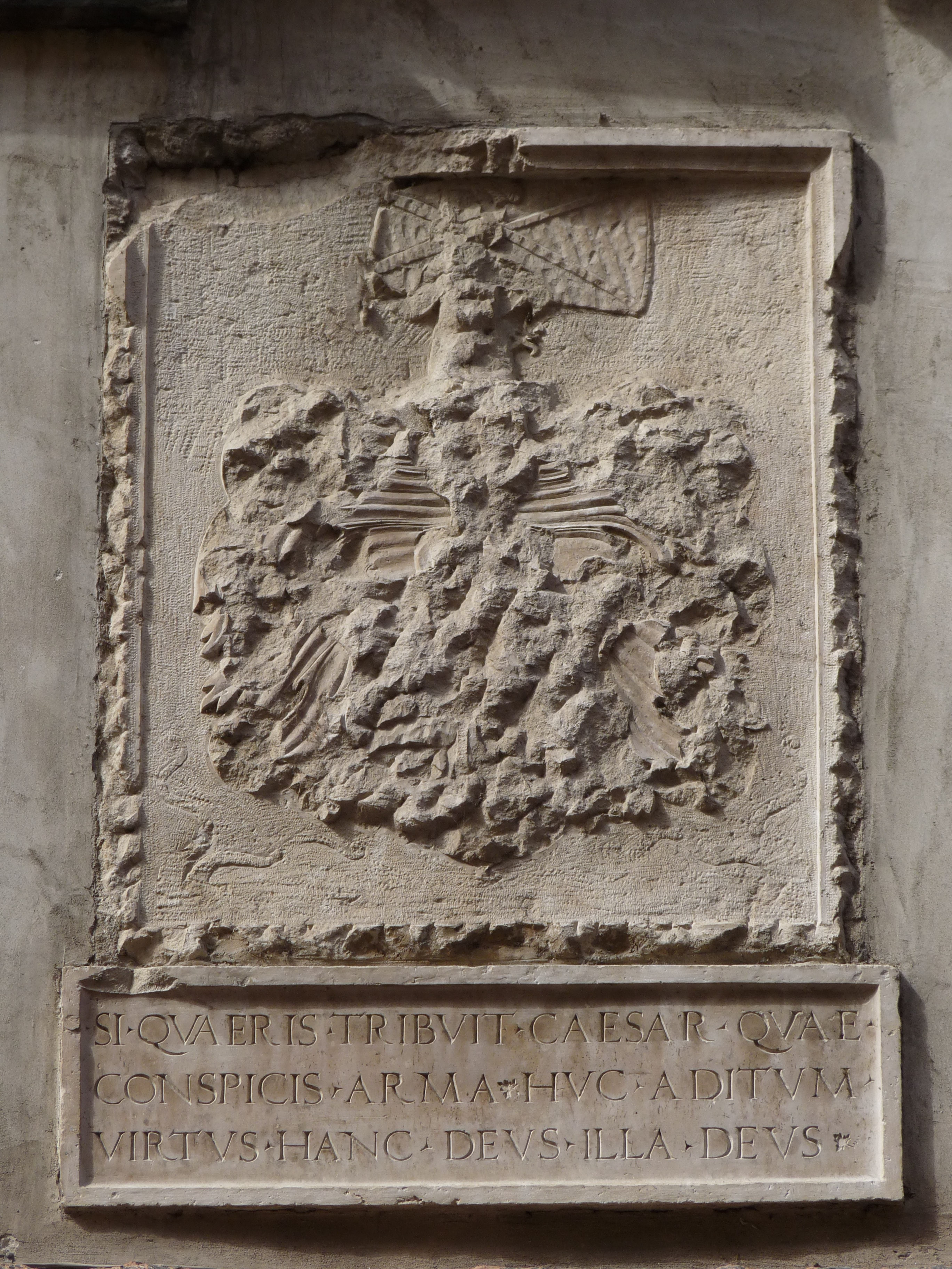 Trento (Italy): the Bortolazzi coat of arms on Palazzo Bortolazzi, damaged during the French occupation at the end of the XVIII century. The inscription says: "SI QVAERIS TRIBVIT CAESAR QVAE CONSPICIS ARMA HVC ADITVM VIRTVS HANC DEVS ILLA DEVS"